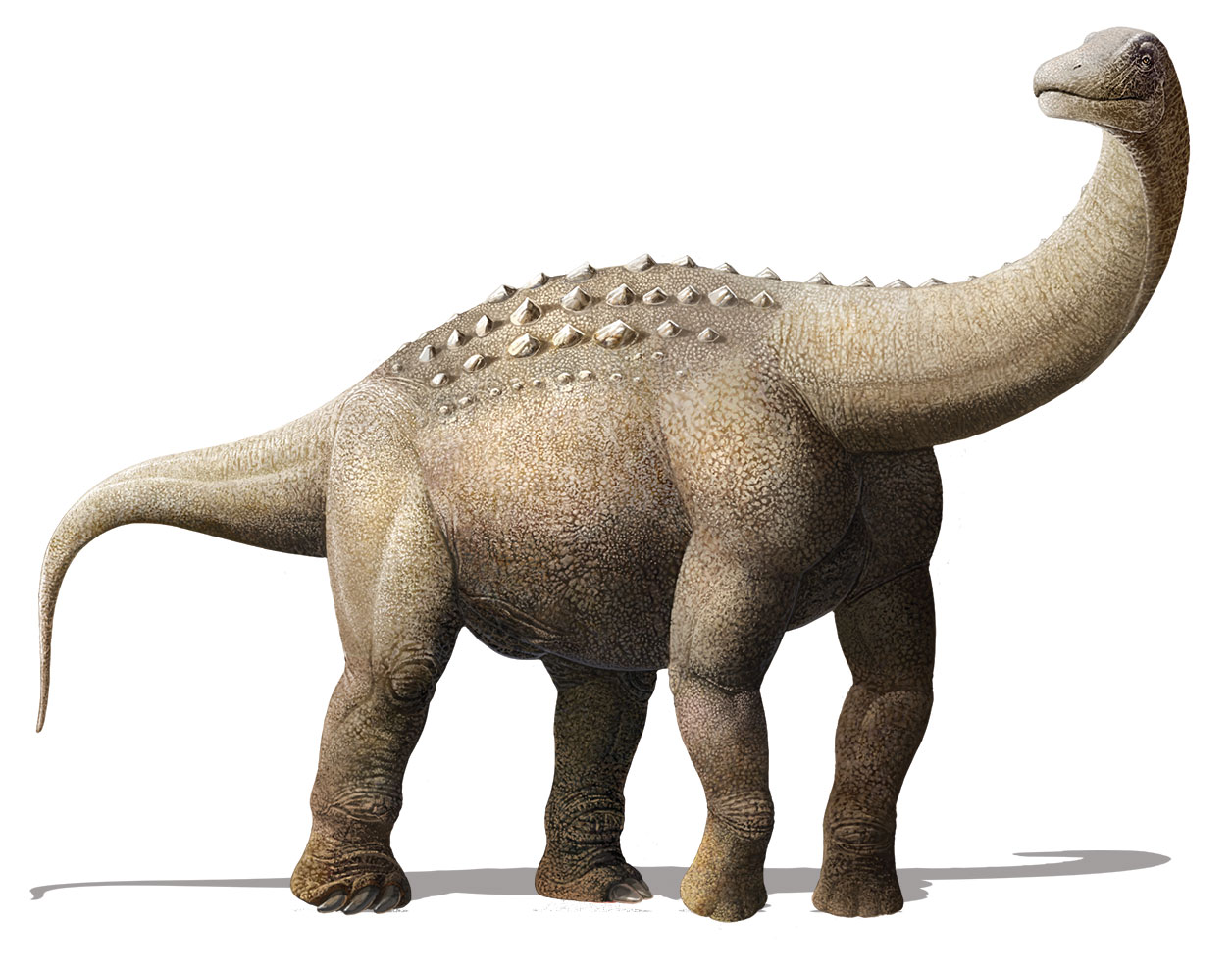 A visual representation of Yamanasaurus lojaensis, first dinosaur discovered in Ecuador